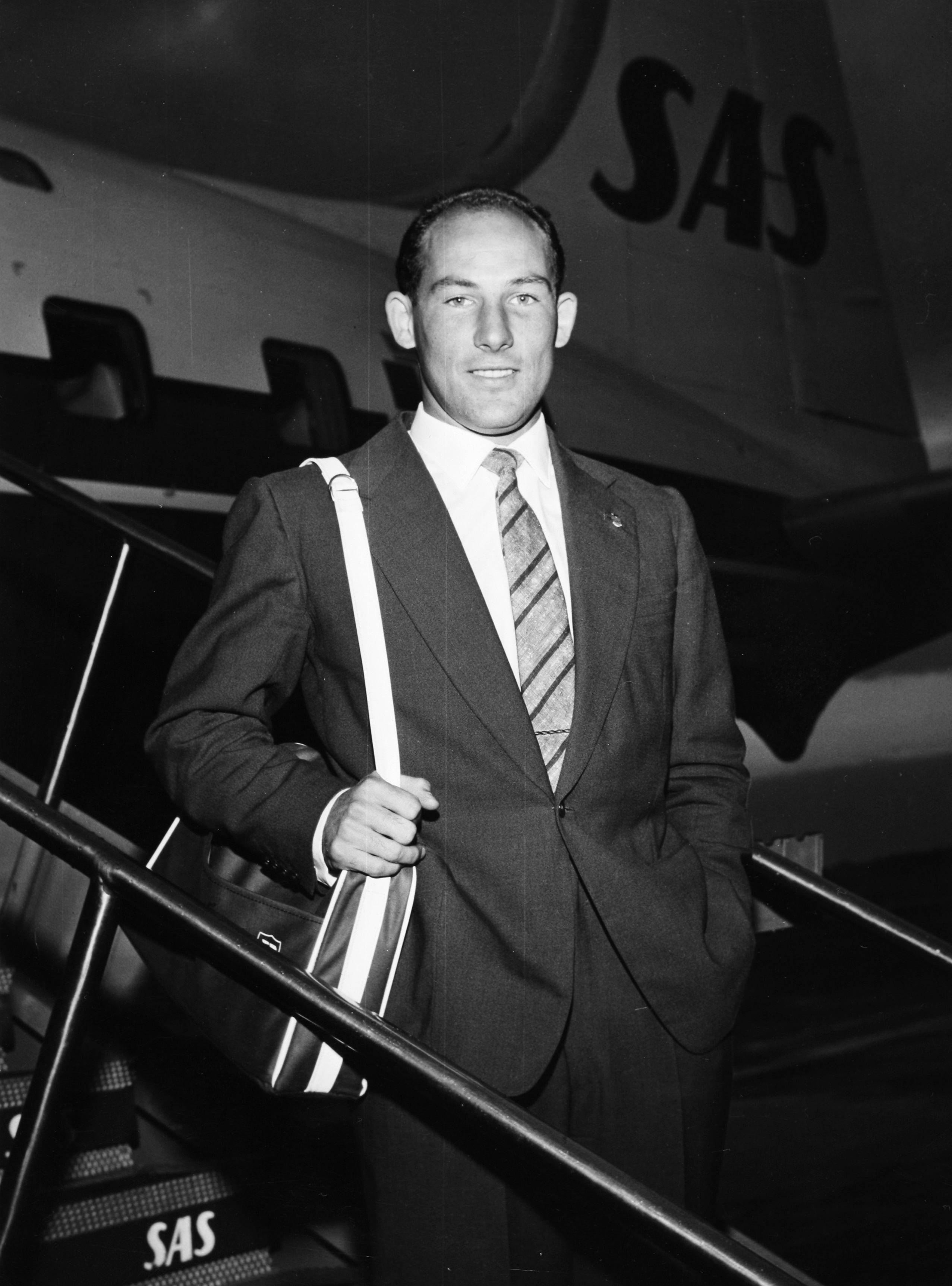 Stirling Moss, mototor racing driver, United Kingdom, at Kastrup Airport CPH, Copenhagen, Denmark.